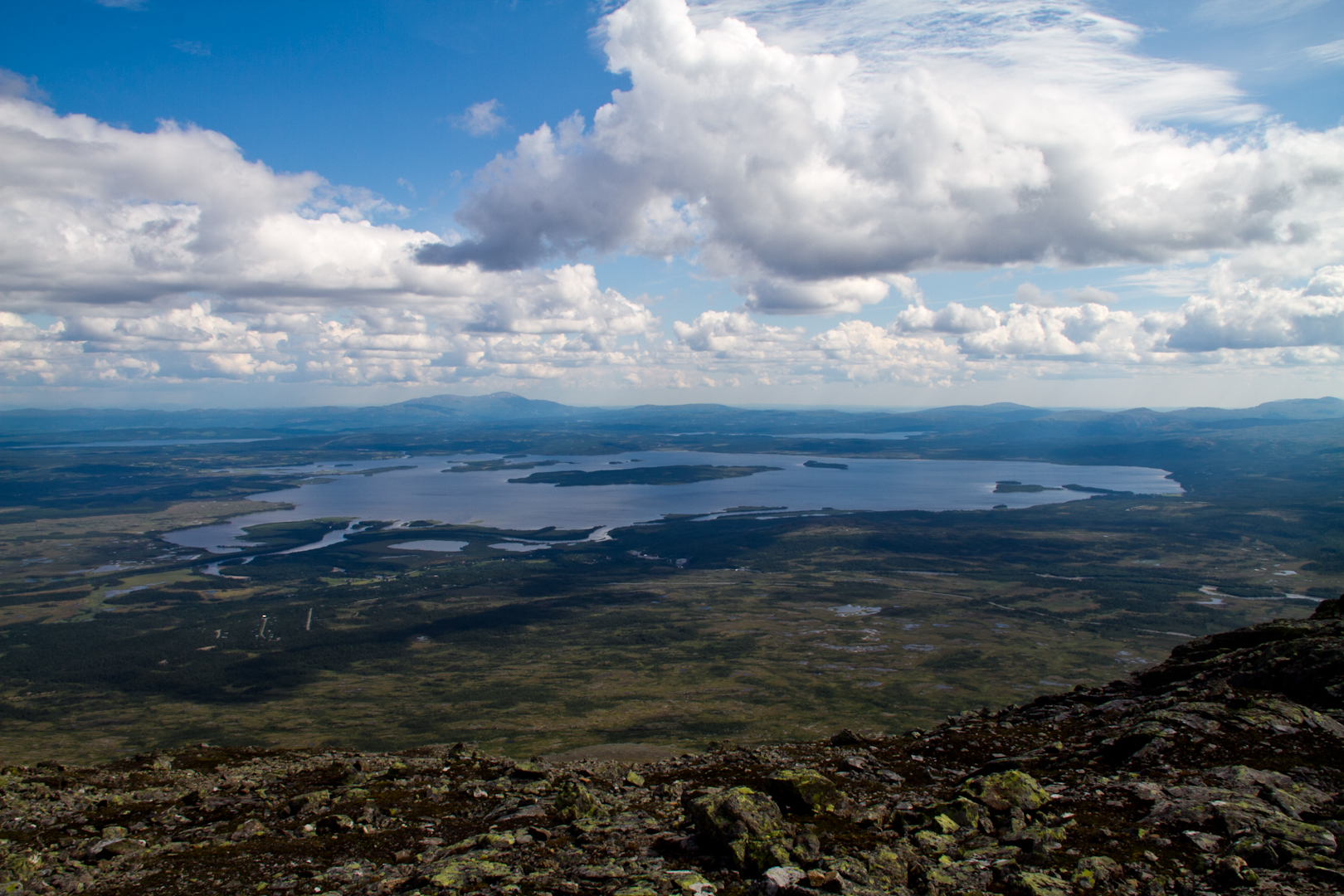 Lake Ånnsjön in Åre municipality, Jämtland, Sweden. Viewed from the summit of Storsnasen (southwest).